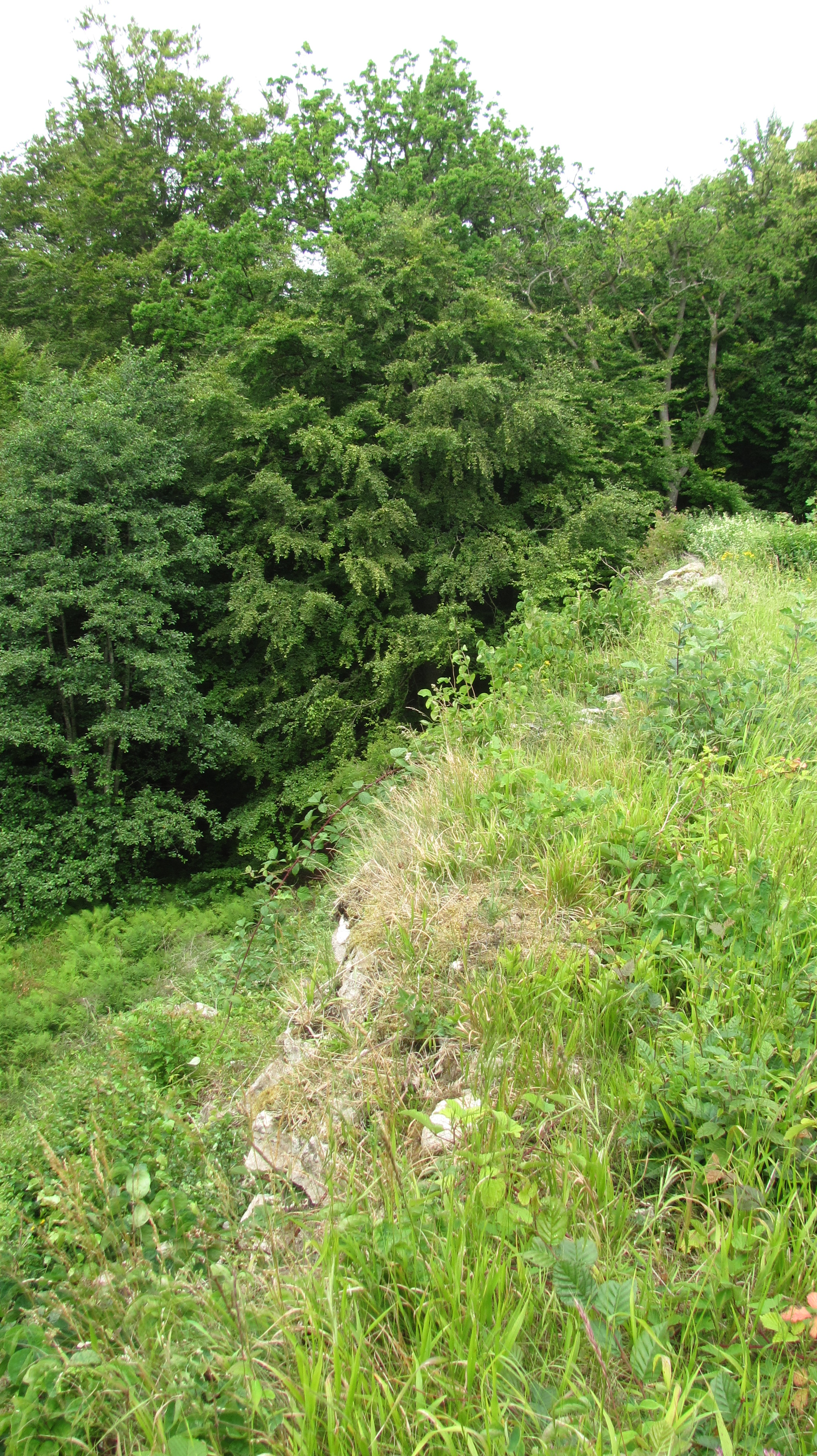 Rempart and wall of Gamleborg Castle, Bonnholm Denmark